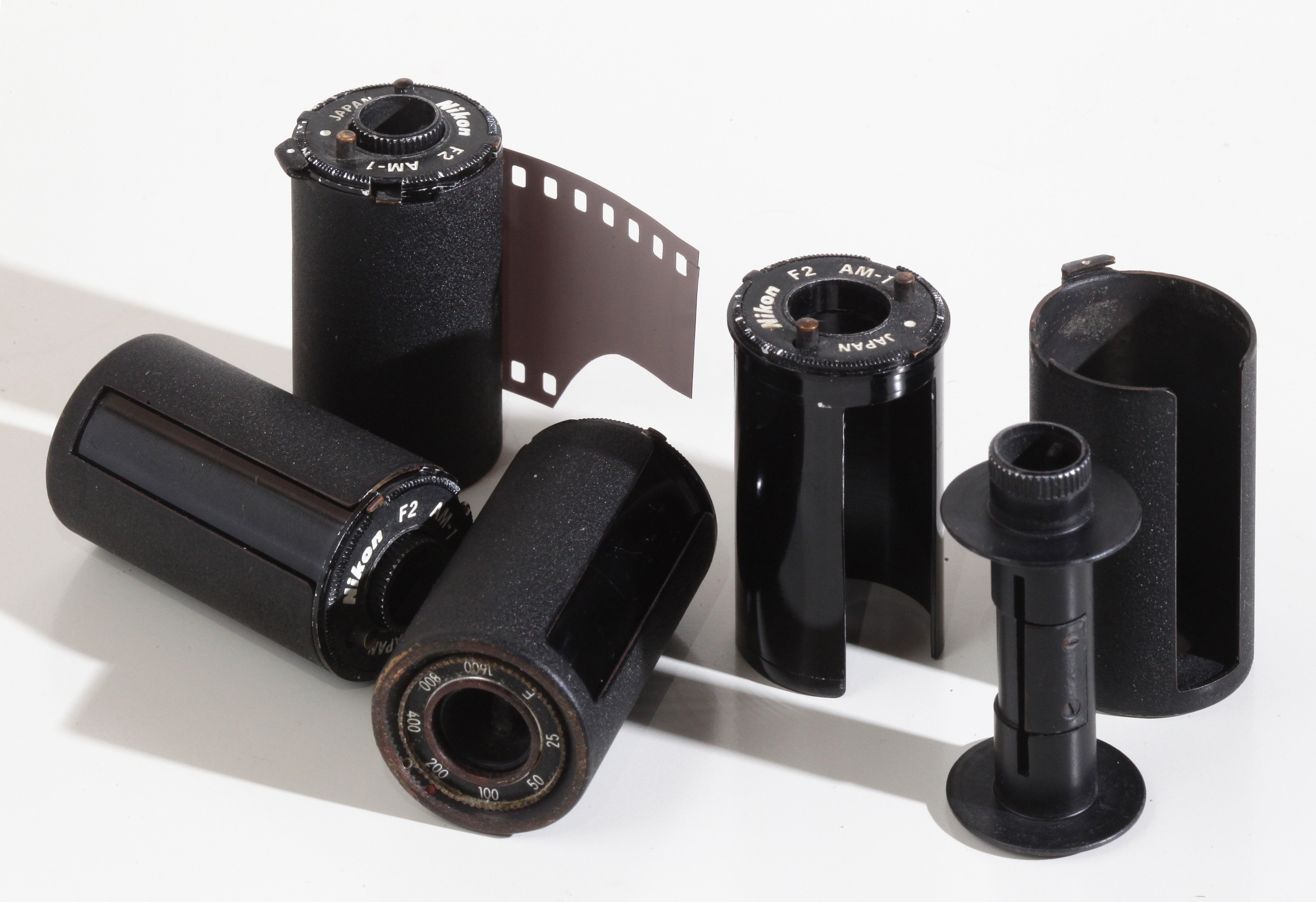 Nikon AM-1 film cartridges for Nikon F2 camera